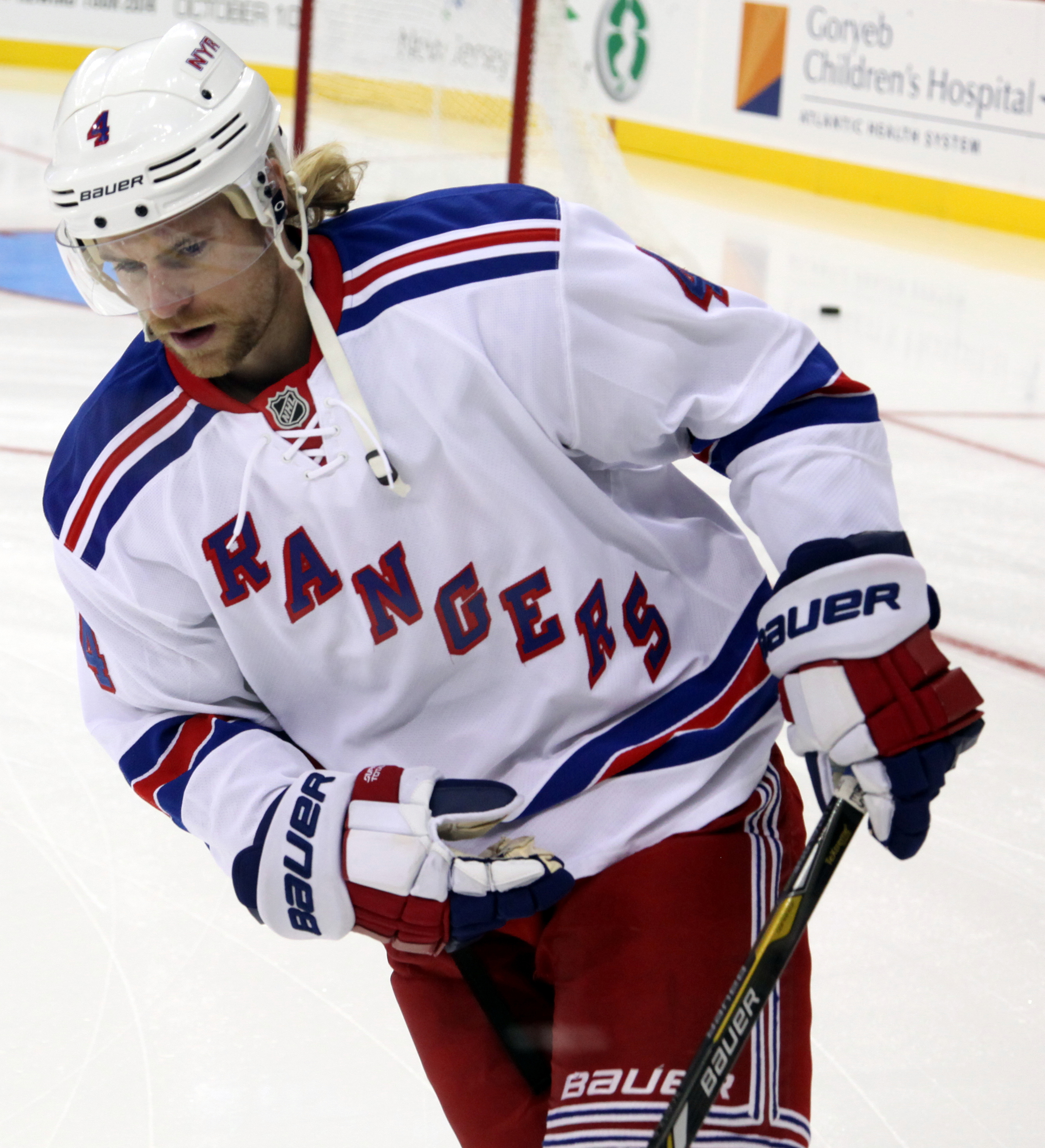 Kostka as a Ranger in October 2014.